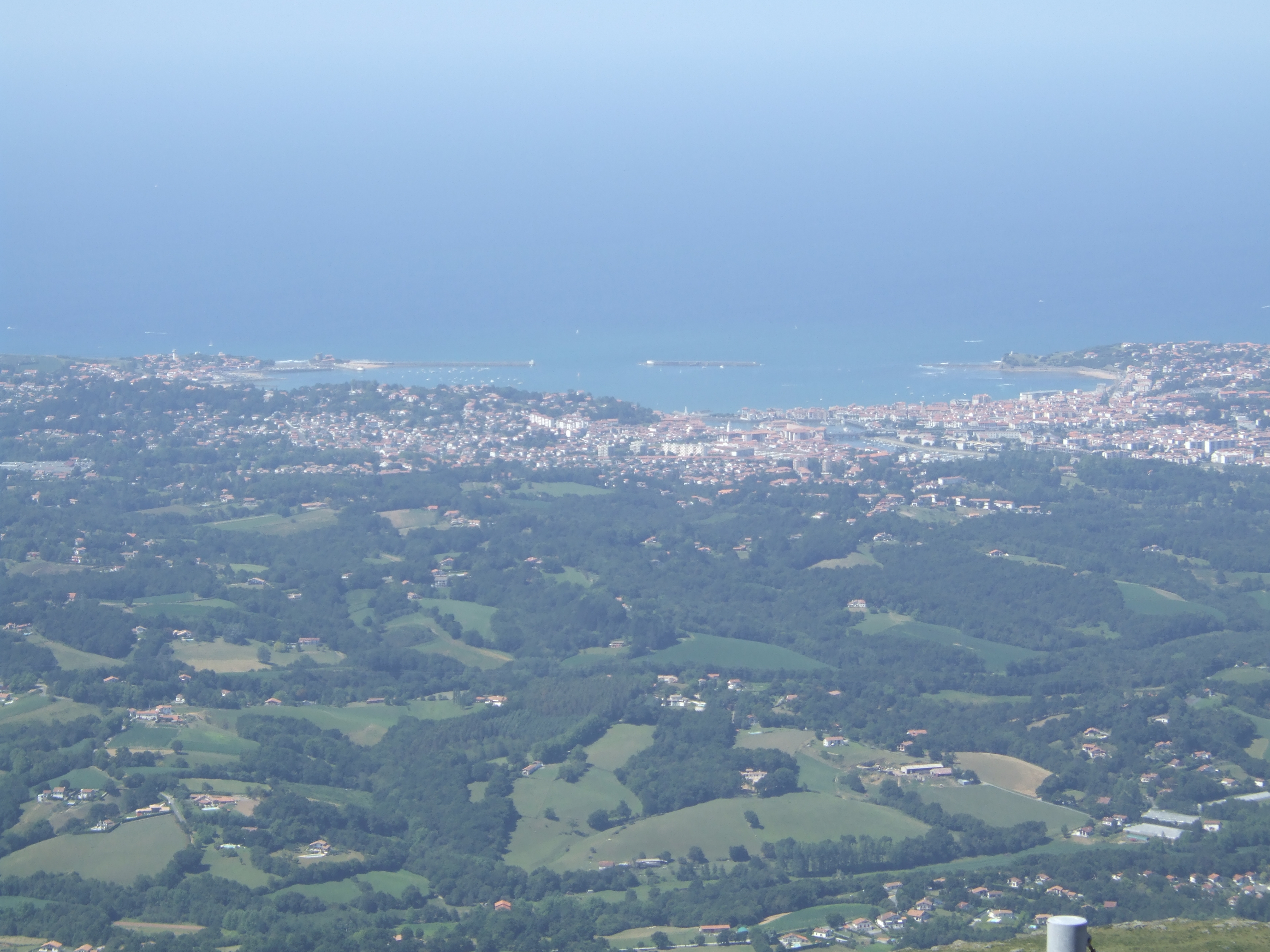 View of Saint-Jean-de-Luz from La Rhune